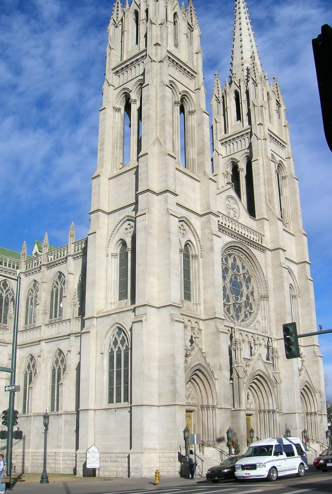 Picture taken on Dec. 30, 2005 of the Cathedral of the Immaculate Conception in Denver, Colorado. Taken by Julio Trujillo. Immaculate Conception Immaculate Conception